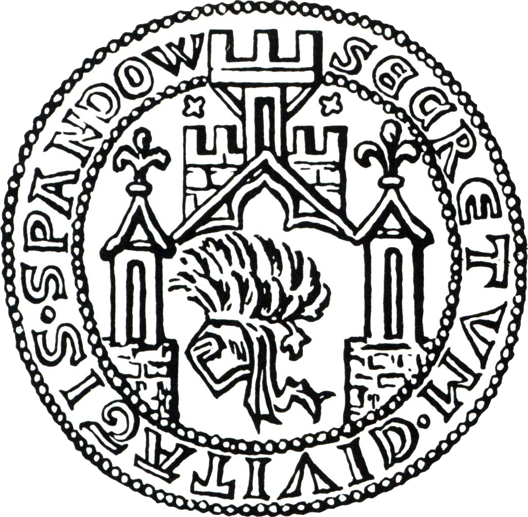 Secret seal of old city Spandau from 1352.